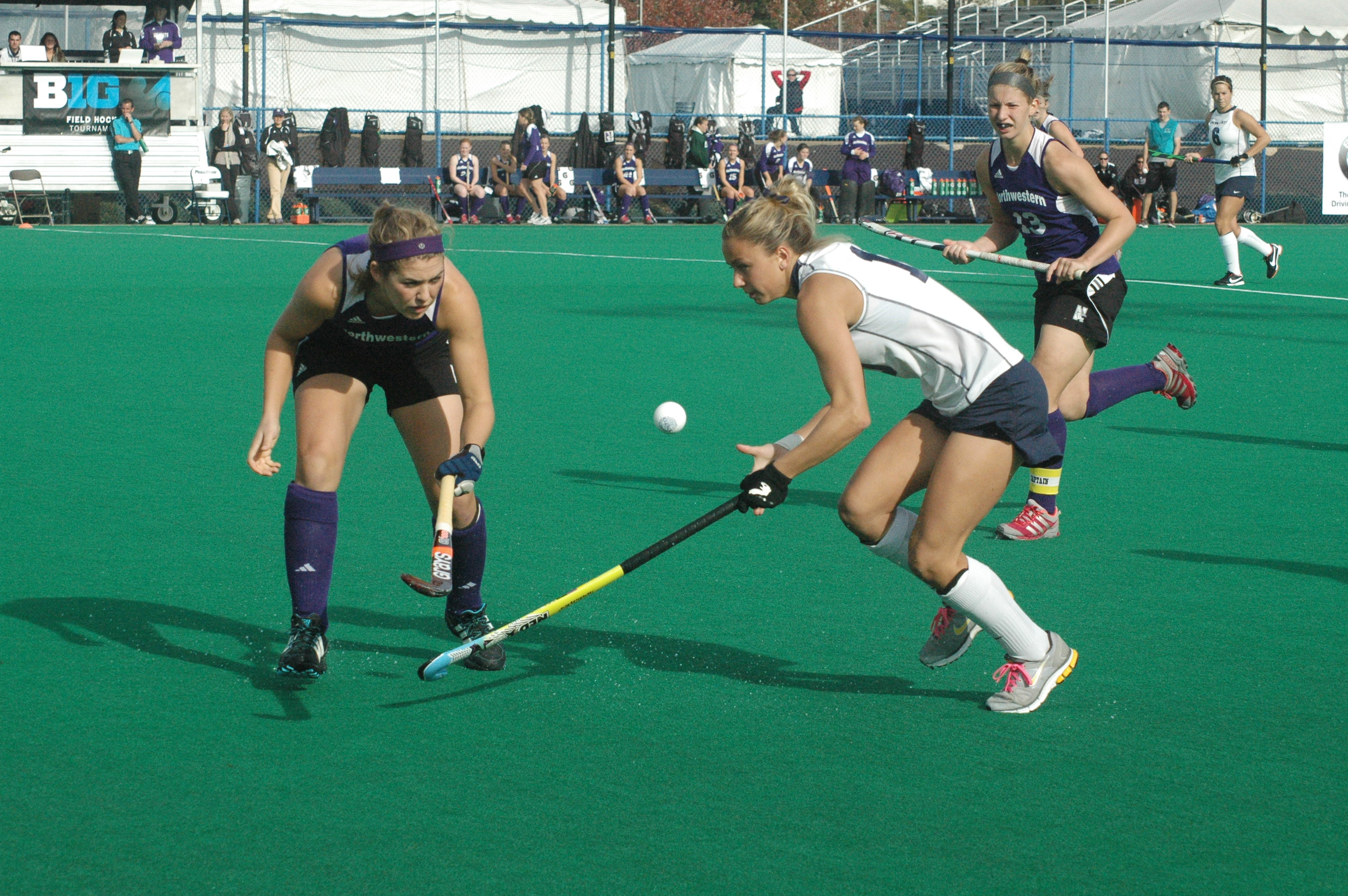 The Northwestern Wildcats vs. the Penn State Nittany Lions during a 2011 Big Ten Field Hockey Tournament game in University Park, Pennsylvania.